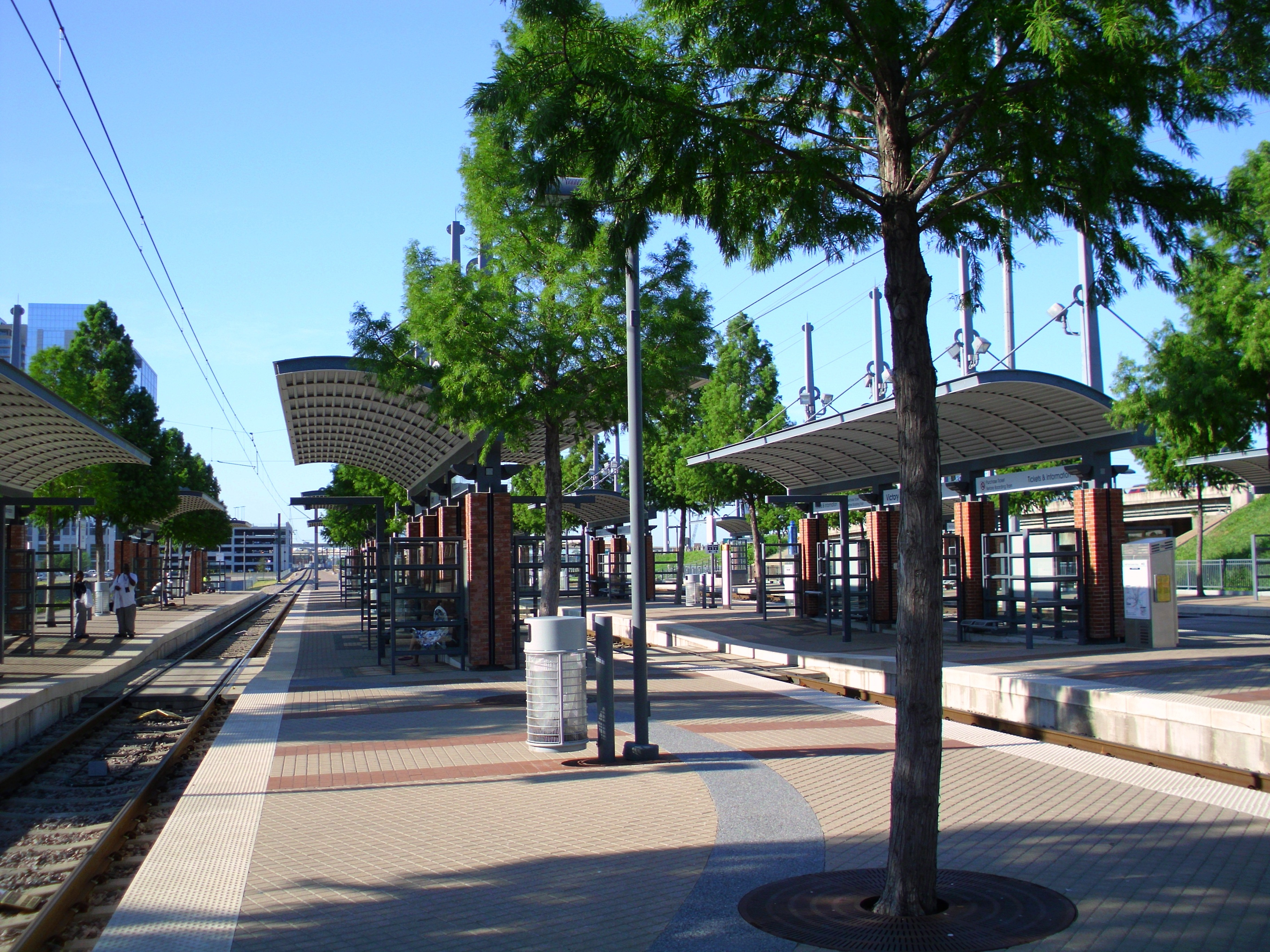 View from the DART Light Rail platforms of Victory (TRE-DART station)